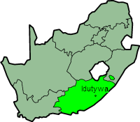 Map of South Africa province Taken from Image:SouthAfricaEasternCape.png Uploaded by User:Morwen